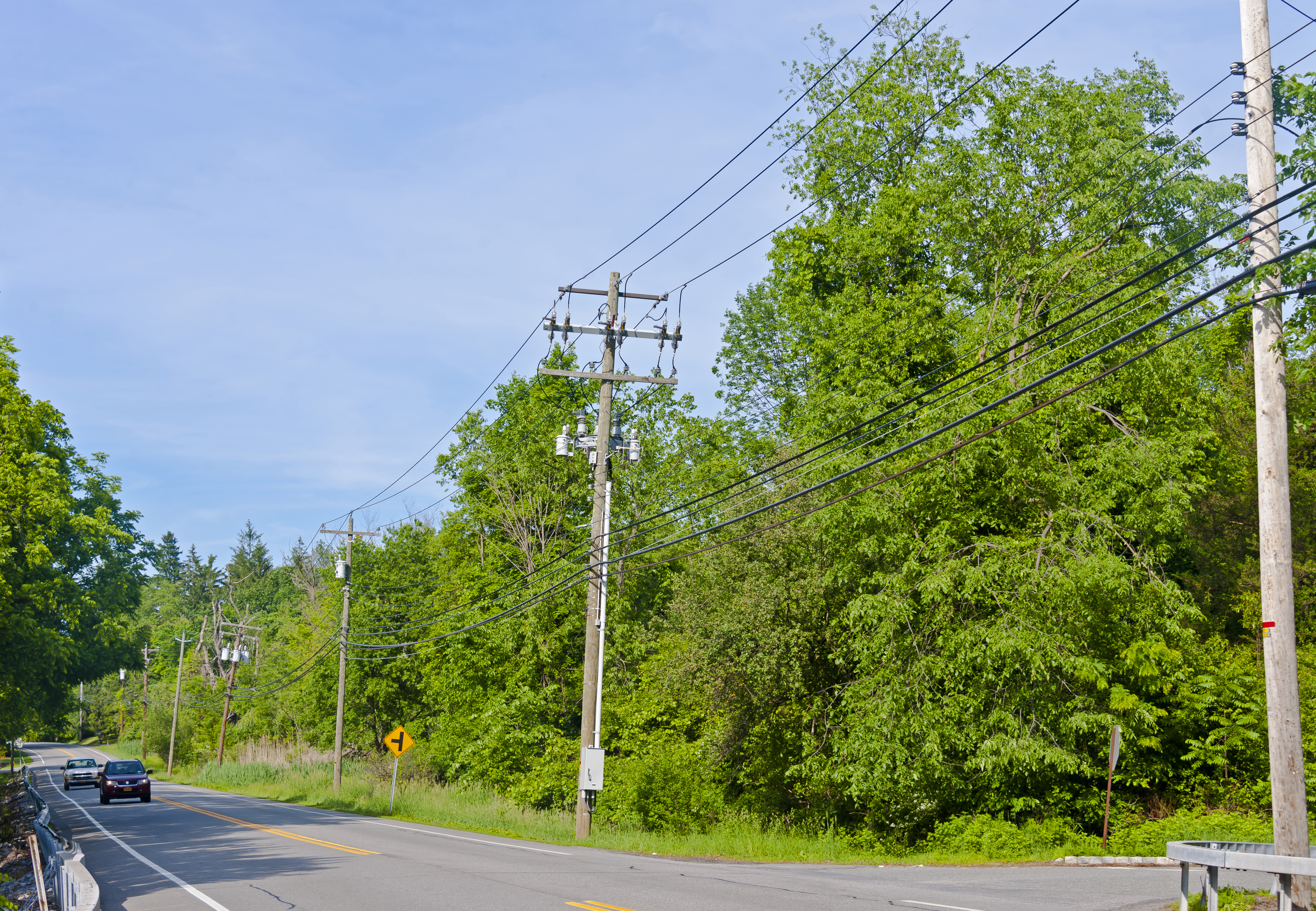 Intersection of NY 208 and Captain Carpenter Road in South Blooming Grove, NY, USA. The body of murder victim Ramona Moore was found in the wooded area behind the corner approximately six weeks prior to this photo being taken.